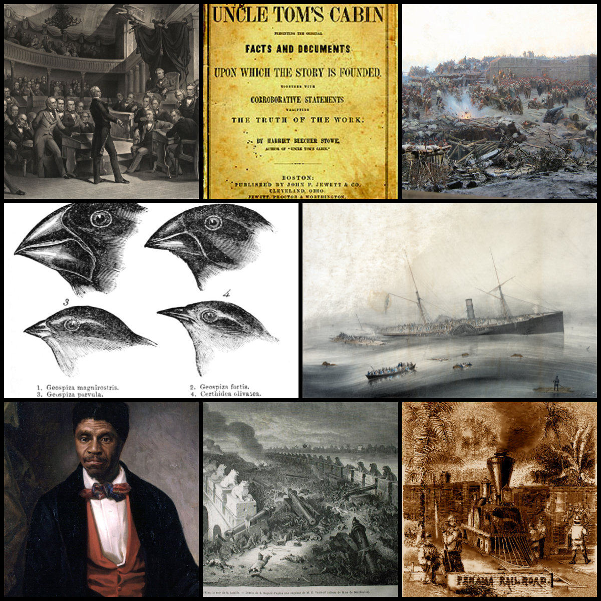 A montage of notable events in the 1850s.